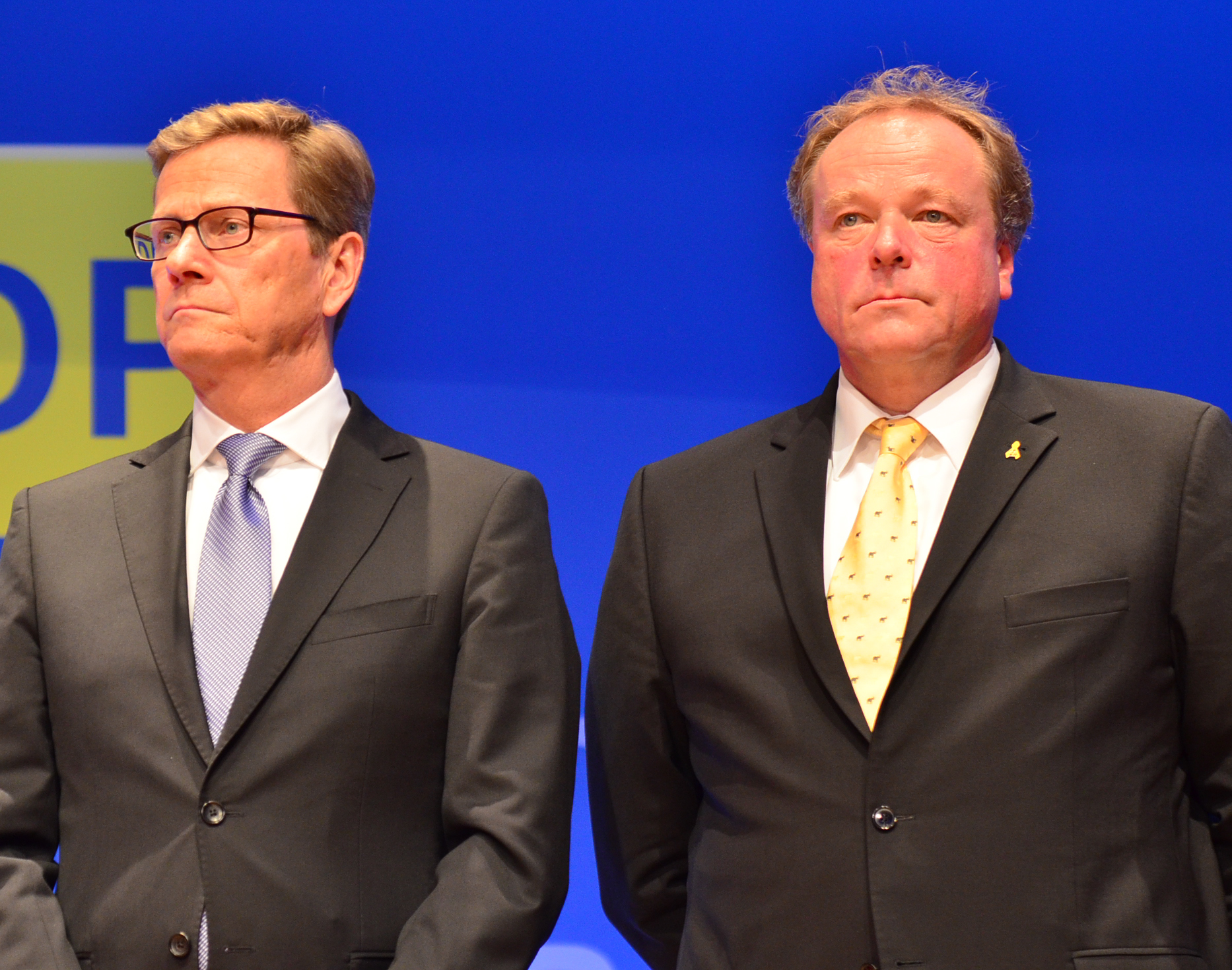 The federal election party FDP in Berlin Congress Center for the parliamentary election in 2013